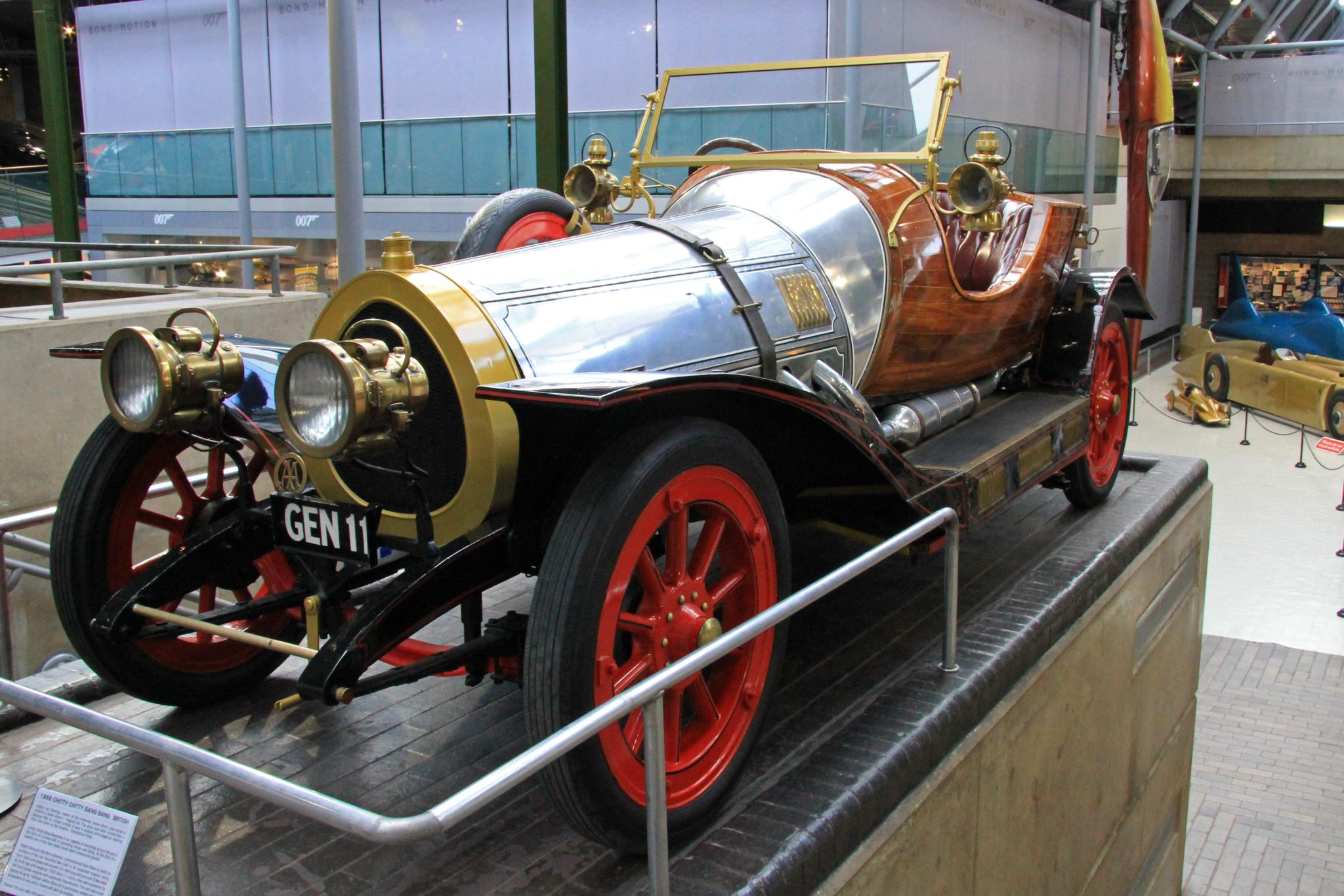 1968 Chitty Chitty Bang Bang Author Ian Fleming, creator of the immortal James Bond, also wrote a children's book about a magical car. The story was later turned into a popular film by United Artists. It was a musical extravaganza starring Dick Van Dyke as the inventor, Caractacus Potts. Chitty Chitty Bang Bang was a car capable of skimming across the sea in the form of a hovercraft or sprouting wings and flying. At the flick of a switch, one of the rear seats could eject unwelcome guests. Albert Broccoli, the film's director, commissioned Alan Mann to build six versions of the car including two built in its supposed original racing form. Each one measured around 18.5 feet long and just over 6 feet wide. At 5.5ft high and weighing 1500 kilos (1.5tons), they were powered by V6 Ford Zodiac engines with automatic transmission. The cars were road tested at up to 100mph before Broccoli's technicians added wings and propellers to one and a hovercraft skirt to another. Housing a collection of over 250 automobiles and motorcycles telling the story of motoring on the roads of Britain from the dawn of motoring to the present day, the award winning (Winner - The International Historic Motoring Awards of the Year 2012) National Motor Museum appeals to all age groups. From World Land Speed Record Breakers including Campbell’s famous Bluebird to film favourites such as the magical flying car, Chitty Chitty Bang Bang and rare oddities like the giant orange on wheels. Don’t miss exciting extra features such as the Motorsport Gallery, Wheels and Jack Tucker's Garage - A permanent, multi award-winning 1930's garage has been created within the Museum, complete down to the last nut and bolt and rusty drainpipe. Whilst the building is a complete fabrication, everything in it - all the fixtures, fittings, tools and ephemera - are genuine artefacts collected over a period of 25 years.